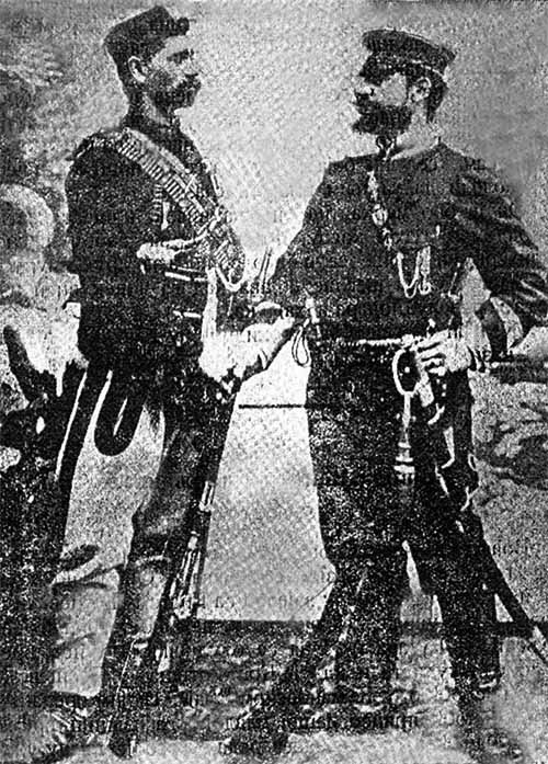 Mihailo Josifović and Micko Krstić. Taken in the same time period of this photo of Micko Krstić.